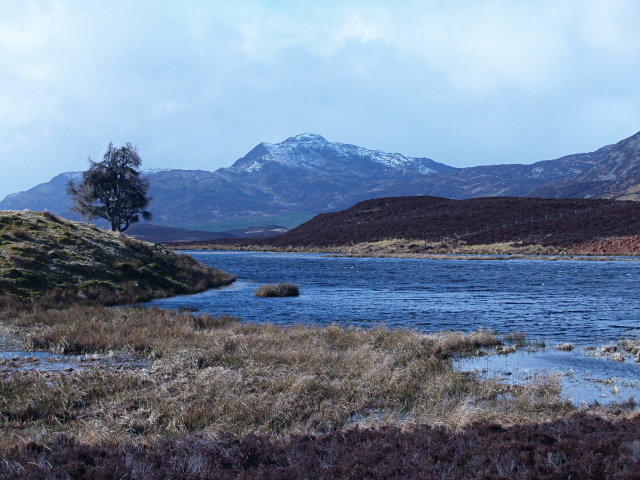 Loch nan Eun Looking towards Farragon Hill. Unfortunately I couldn't persuade the swans off picture on the right to pose in a suitable position.